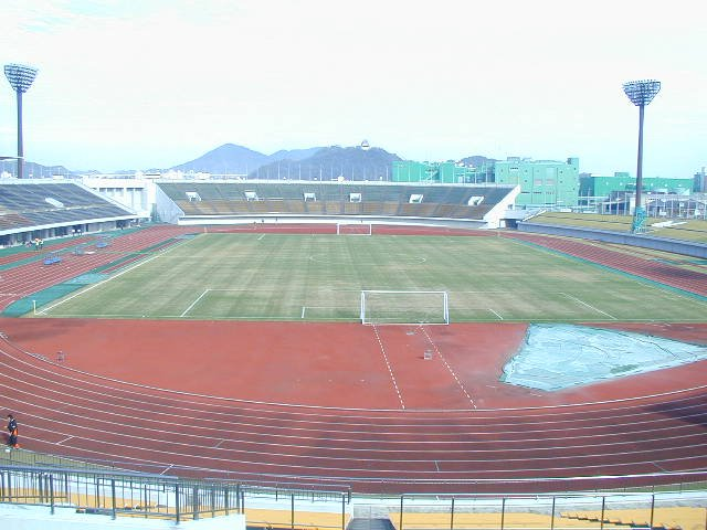 This shows a scene of Naruto-athletic-stadium on November 15, 2003. This studium is a J-league team of Tokushima VORTIS's home. Source Photographed by myself on November 15, 2003 Photographer Ultratomio Licence GFDL